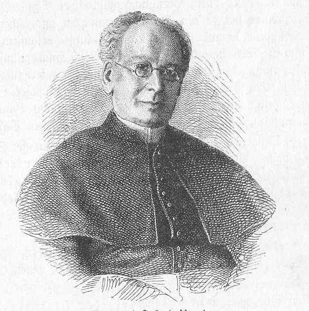 Copyright expired drawing of Guiseppe Pecci from 1872